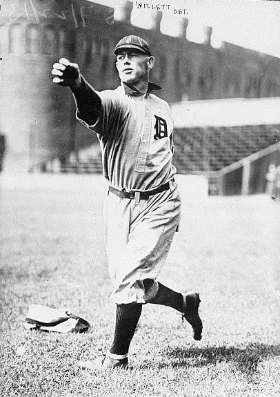 Ed Willett of the Detroit Tigers